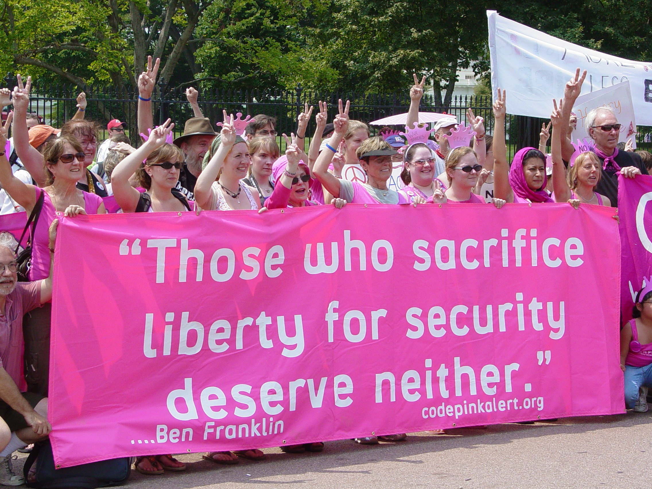 Code Pink Photo by Ben Schumin.